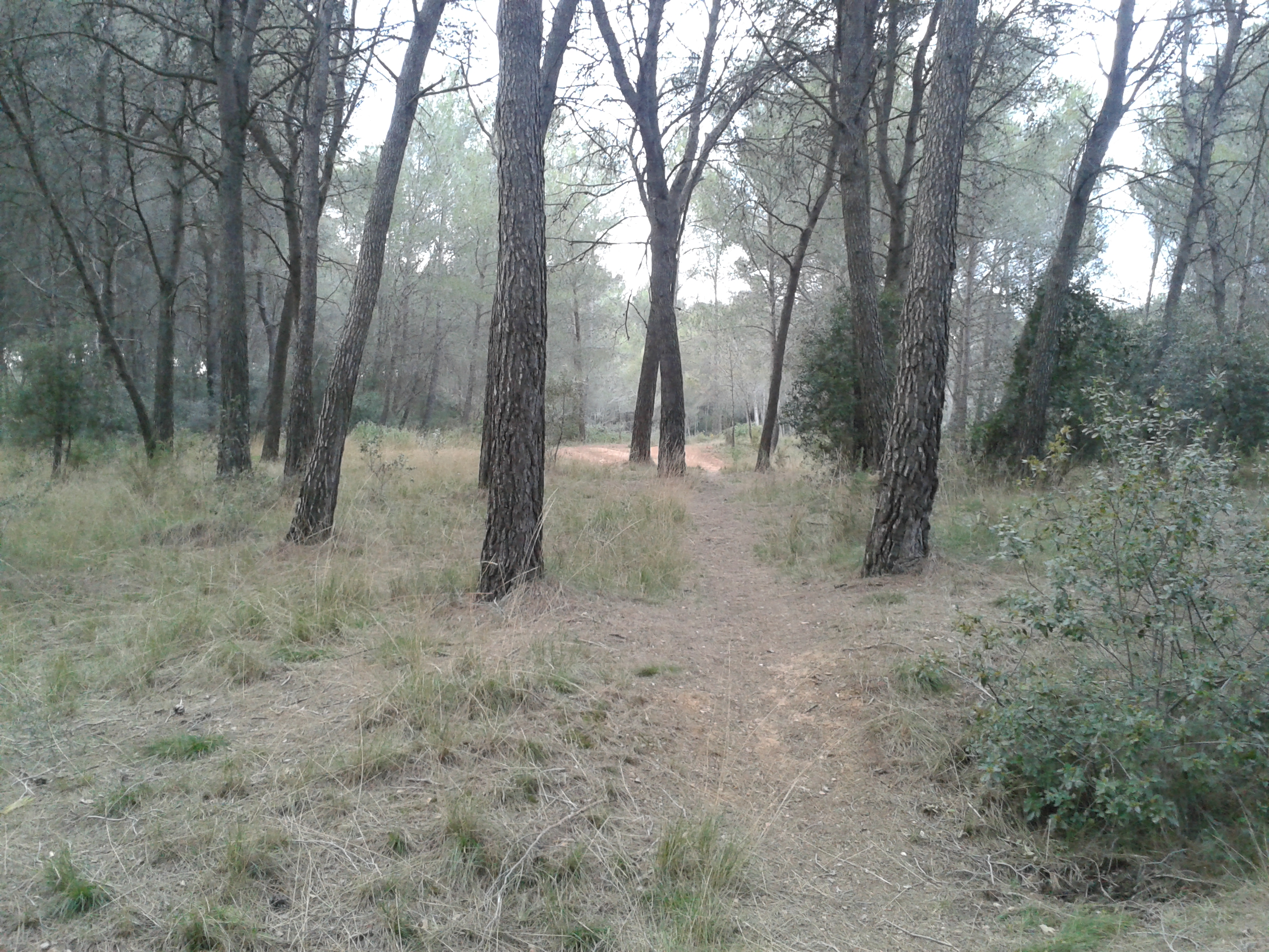 A Quaternary ecosystem: Can Deu Forest in Sabadell, Mediterranean Eco-region